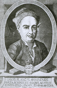 As file